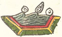 The Aztec day sign atl (water).